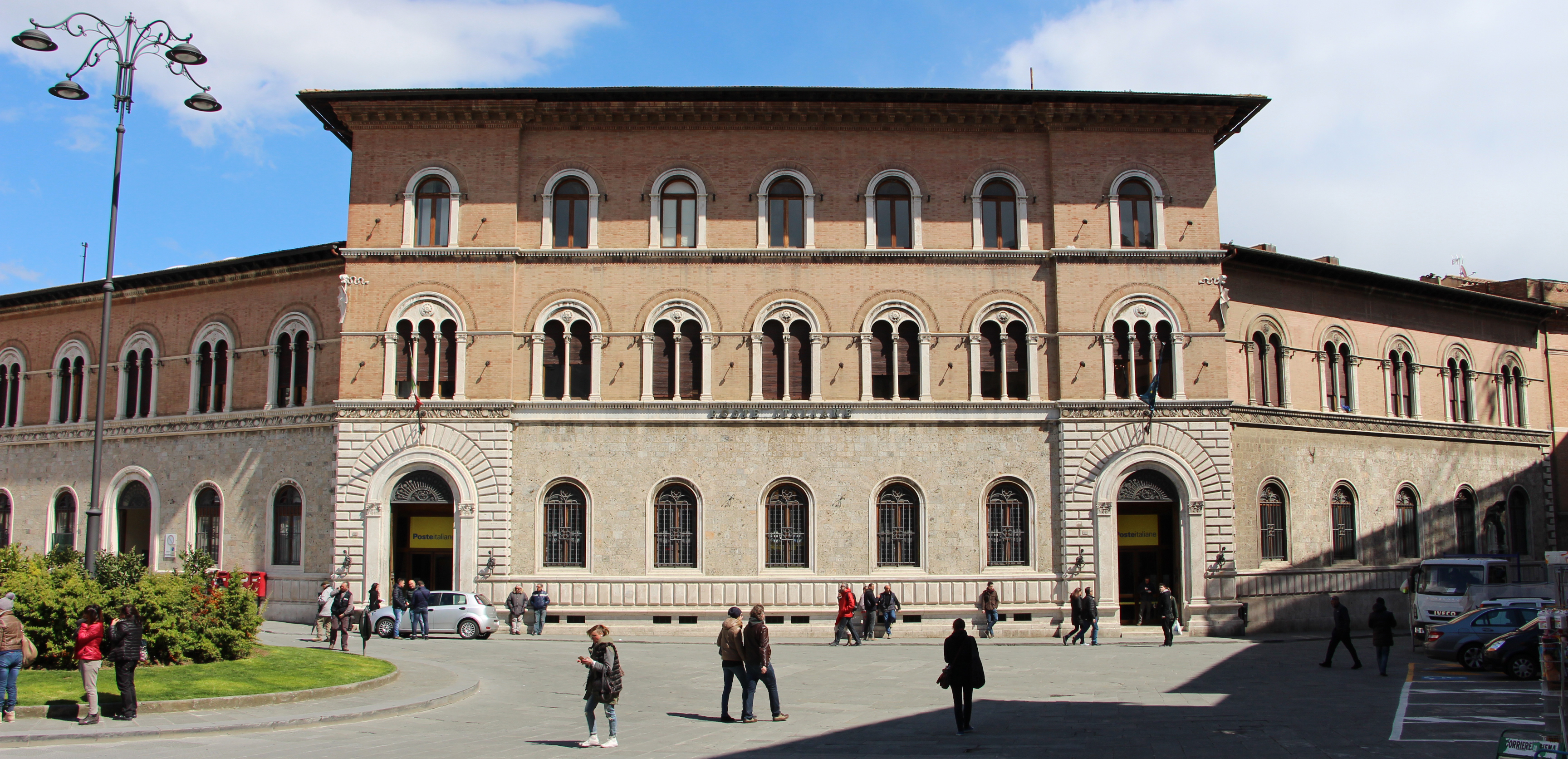 Streets in Siena